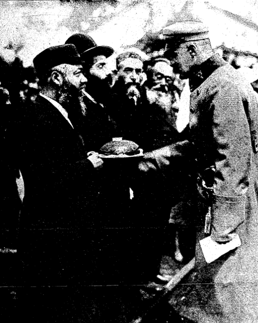 Marshall Józef Piłsudski with Jews